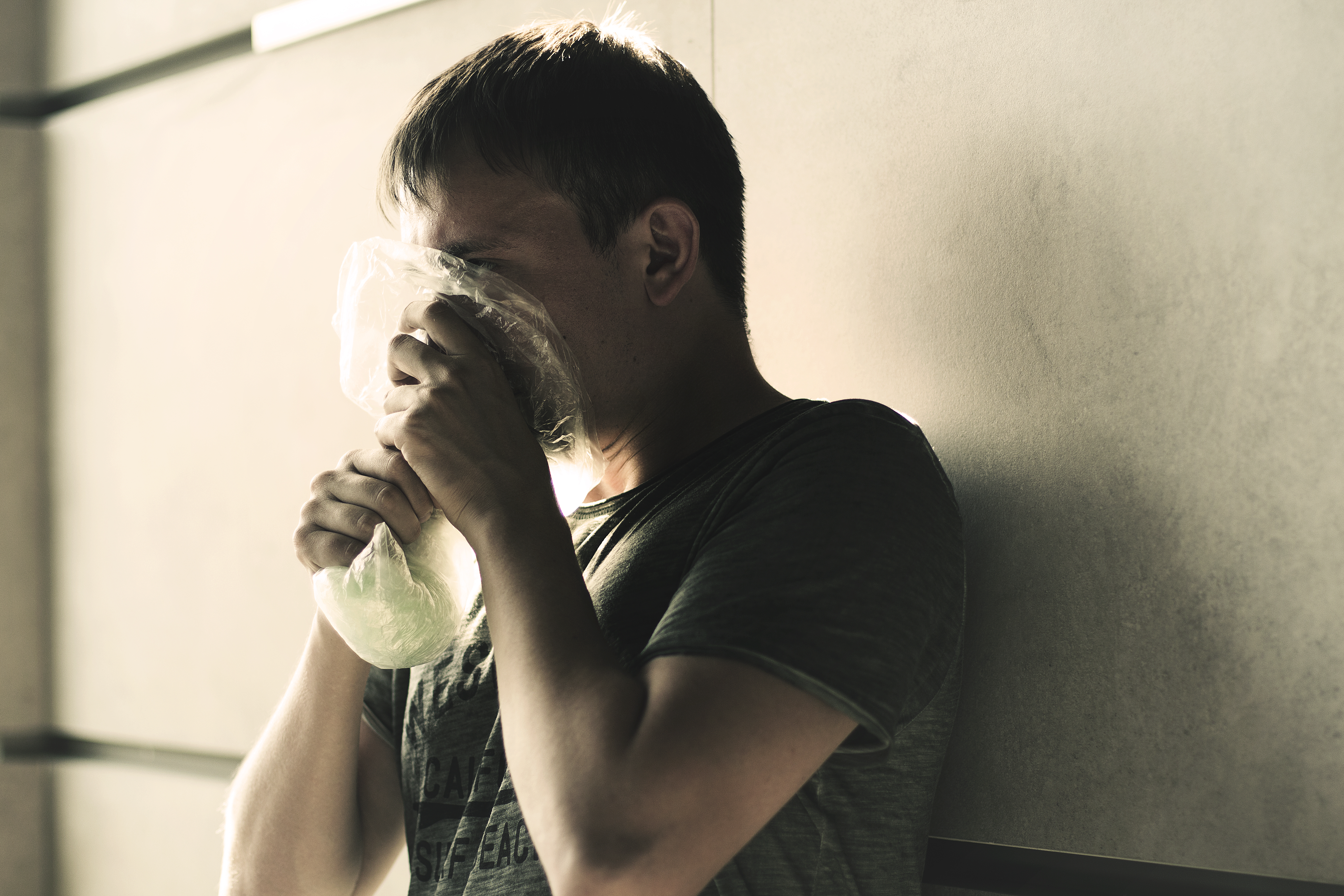 Toxicoman sniffing glue